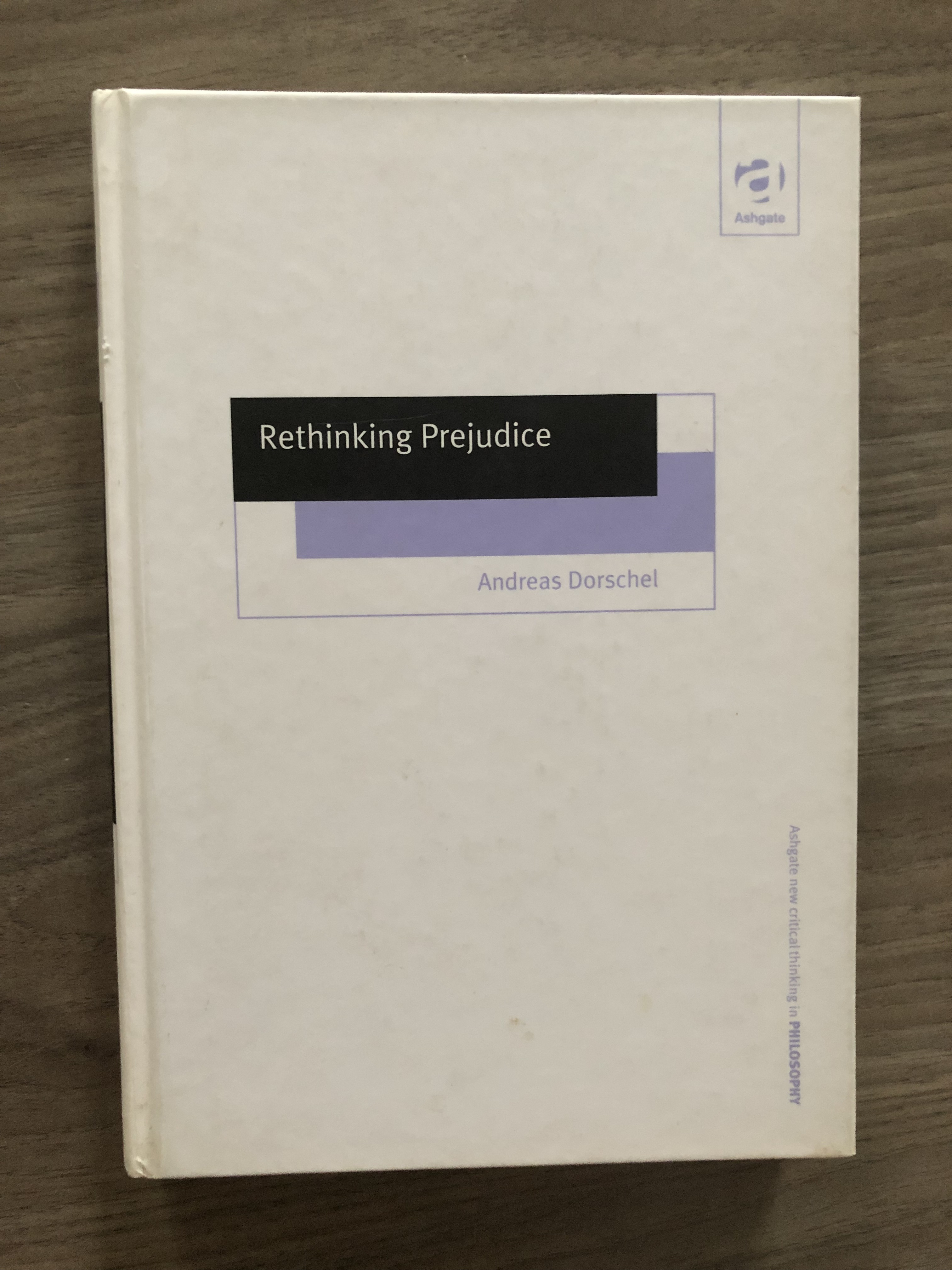 Andreas Dorschel, Rethinking Prejudice (2000)